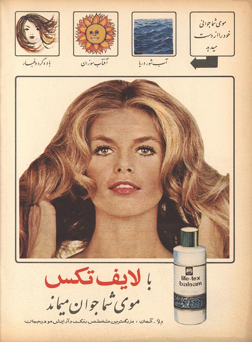 Life-tex balsam - Magazine ad - Zan-e Rooz, Issue 303 - 16 January 1971